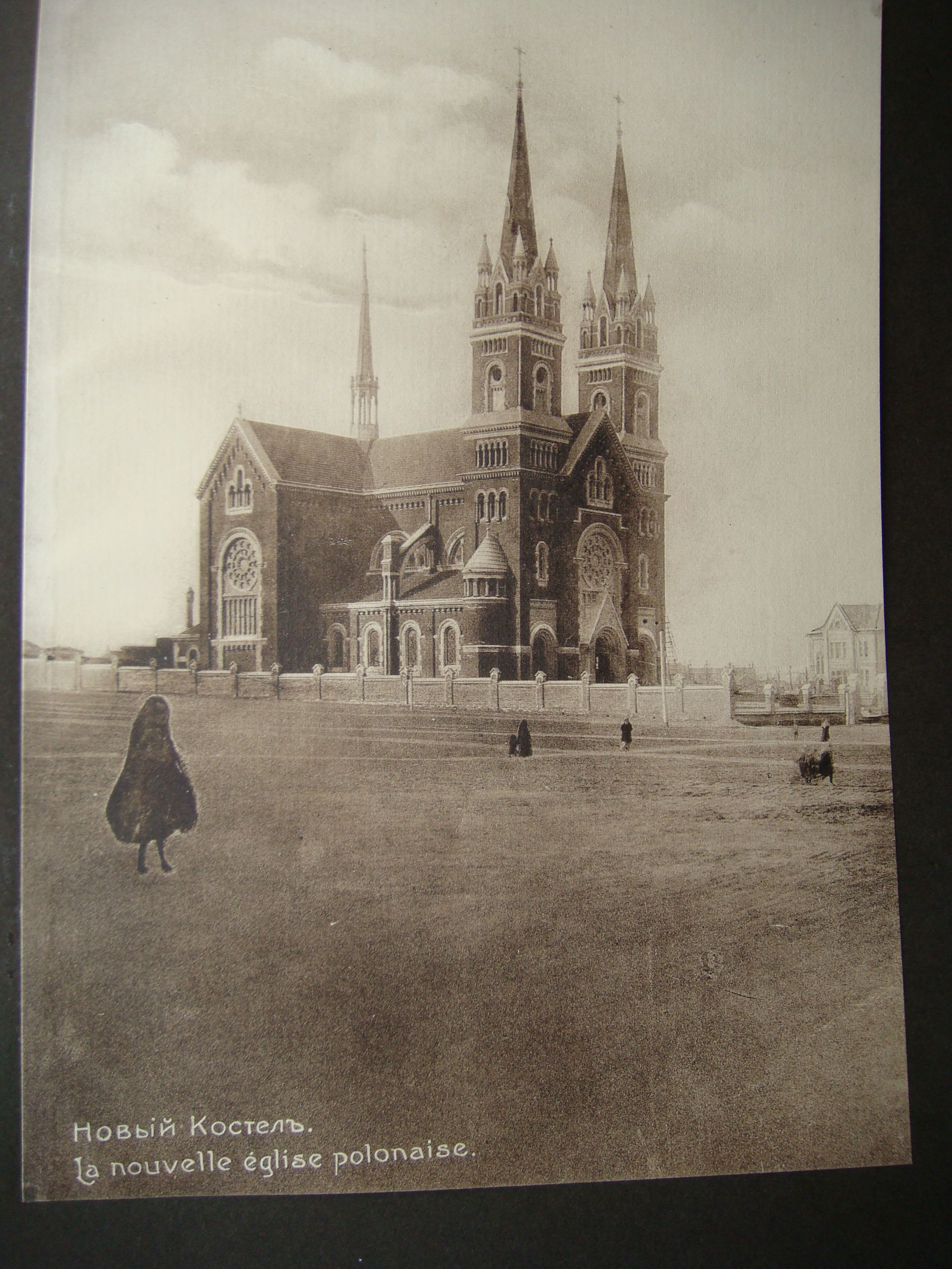 This is photo view of Odessa from Souvenir Photo Album published in Odessa circa early XX century.